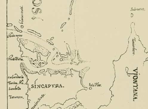 Map of Singapura by Portuguese cartographer Manuel Godinho de Eredias, first drawn in 1604. Marked on the map are Blakang Mati or Sentosa (Blacan mati), New Strait (Estreito Novo, Singapore Strait), Old Strait (Estreito Velho, through Keppel Harbour), Xabandaria, Tanjong Rhu (Tanjon Rû), Sungei Bedok (Sunebodo), Tanah Merah (Tanamera), Tanjong Rusa (Tanjon Ruça), Terusan (Turuçan), Selat Tebrau (Salat Tubro), Pulau Merambong (Pulo Ulas), and Johor or the Malay Peninsula (Ujontana)